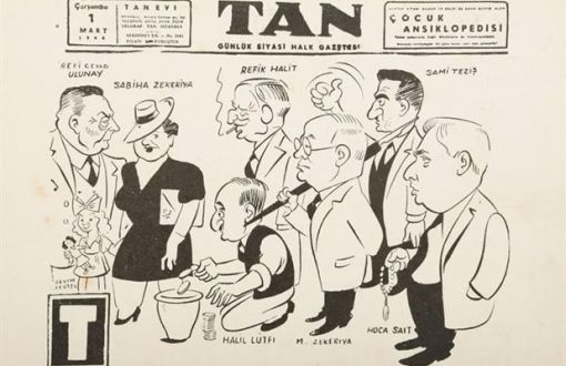 Tan Newspaper